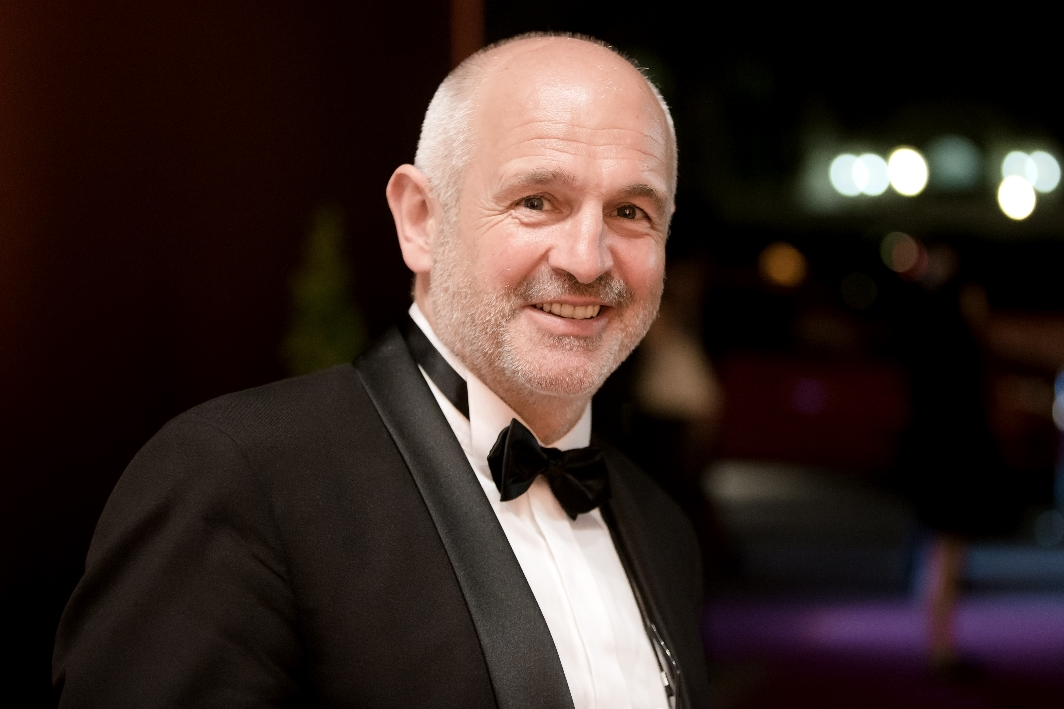 Fritz Egger on the red carpet of the Romy TV awards 2016 at Hofburg Palace in Vienna, Austria.